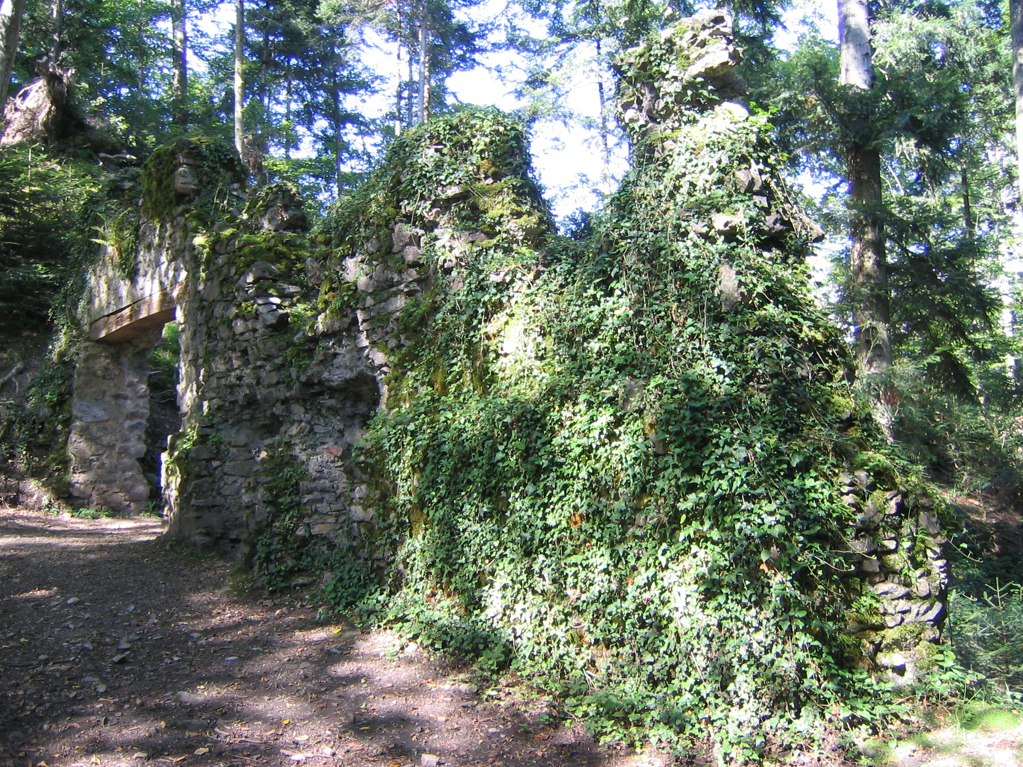 Ruins of castle Wiesneck at Buchenbach, Black Forest